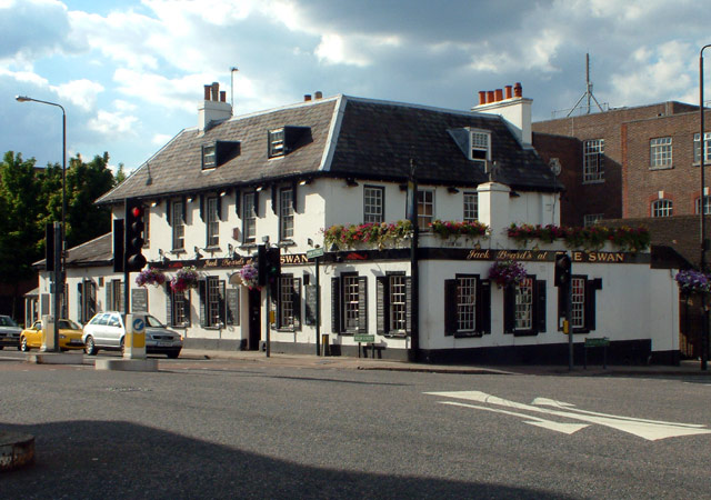 The Swan Inn, West Wickham BR4. In front of the 18th century Swan Inn there stood, until 1935, a great elm called the "Stocks Tree", marking the centre of the old village of West Wickham - at the point once known as Norwood Cross. The High Street extends to the left, in the photo, while in Station Road, just to the right of the Swan, stands the Post Office.